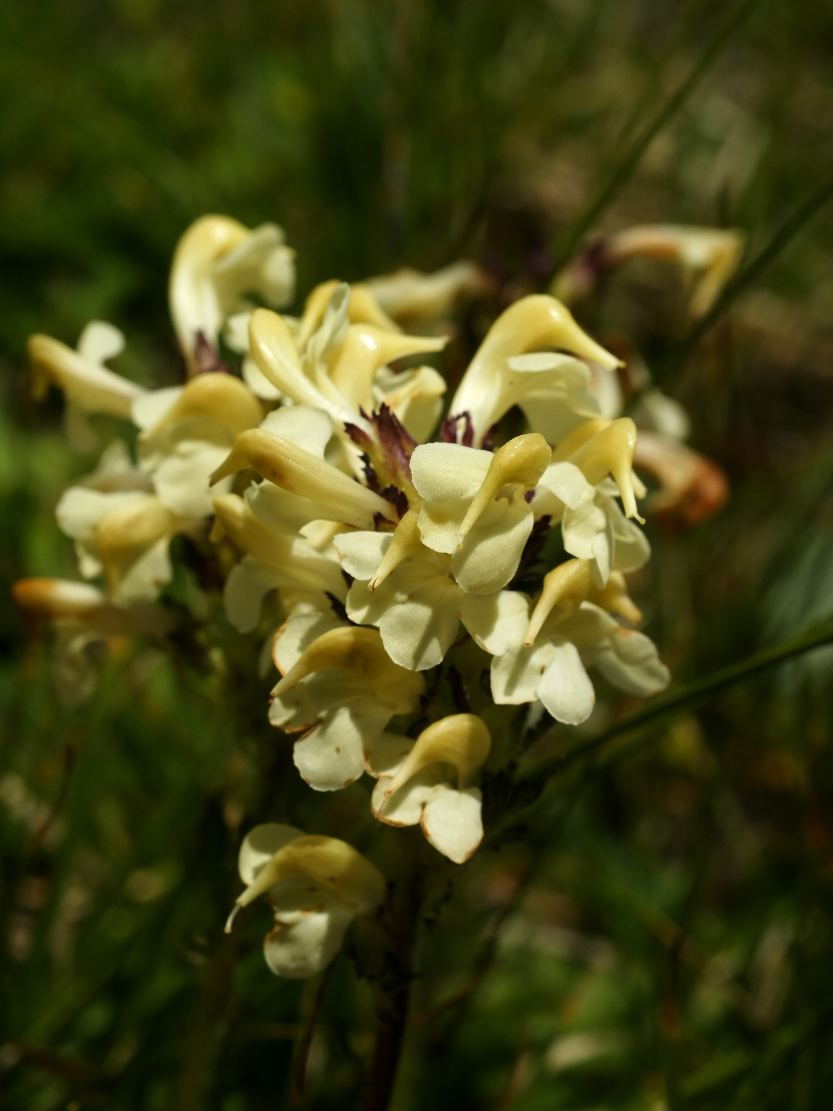 Long Beaked Yellow Lousewort at Längfluh, Saas Fee, Switzerland